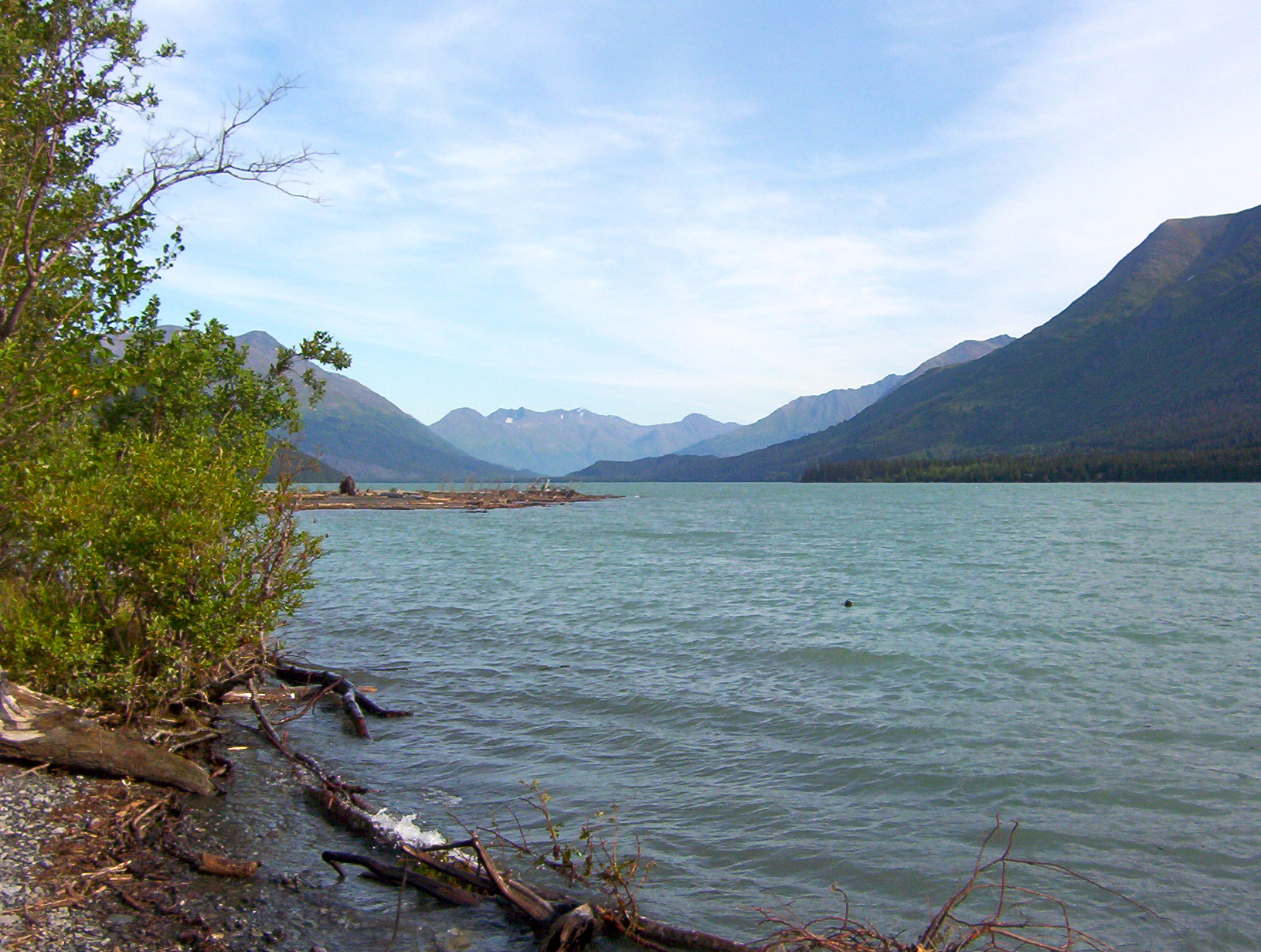 South end of Kenai Lake, seen from Primrose boat launch